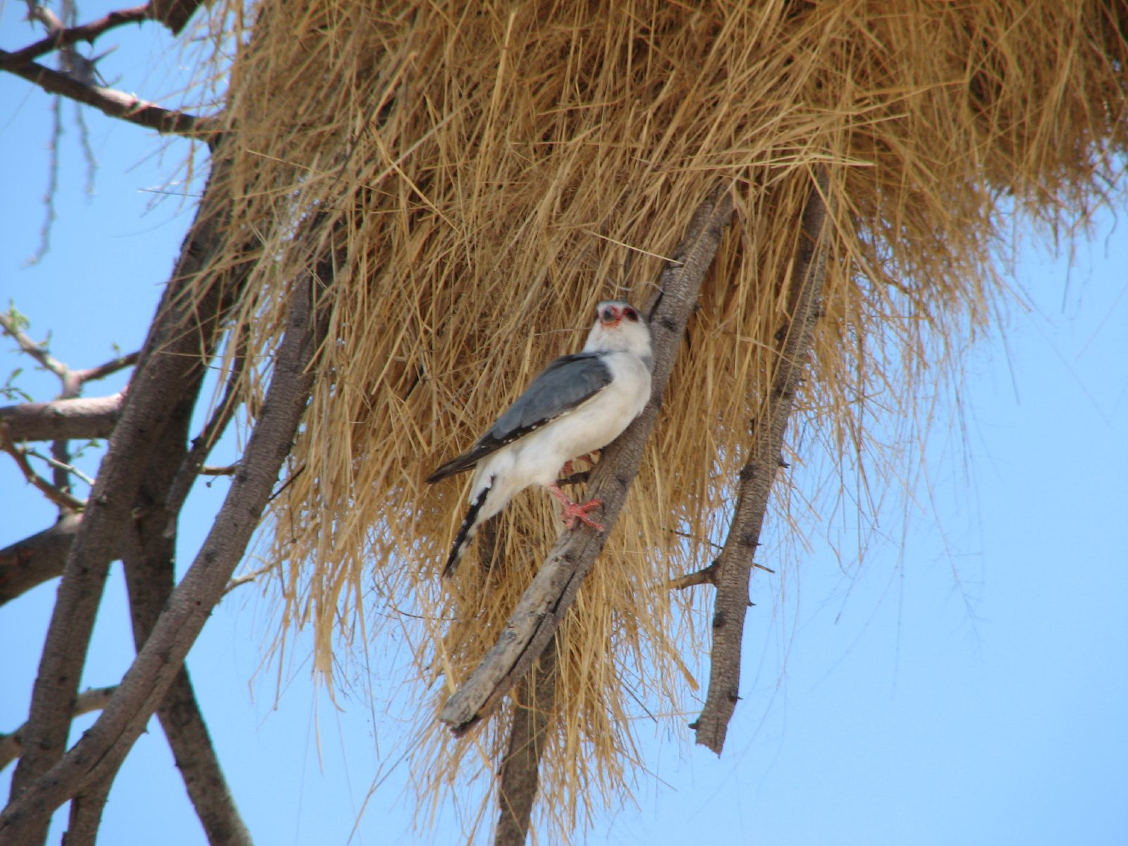 The haystack in the picture is the communal nest of Social Weavers (Philetairus socius) where this little falcon nests as an uninvited guest.